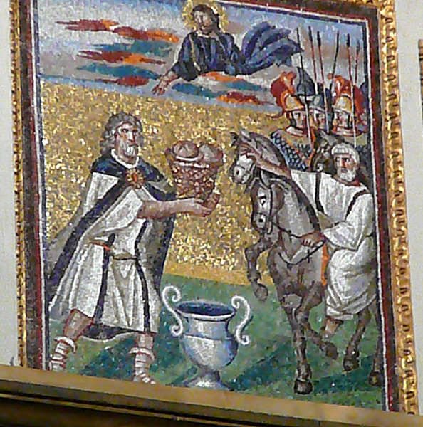 The Sacrifice of Melchizedek, 5th century mosaic, with medieval and modern restorations. Santa Maria Maggiore, Rome. Representation of Genesis 14:14-20: God (represented as Jesus, with cruciform halo) blesses Melchizedech (left) as he offers a basket of bread and a vase of wine. Abraham and his troops are on the right. This is part of the extensive series of Old Testament scenes portrayed in mosaics along the two walls of the nave.